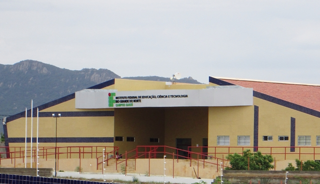 IFRN, Caicó (RN) - Brasil.